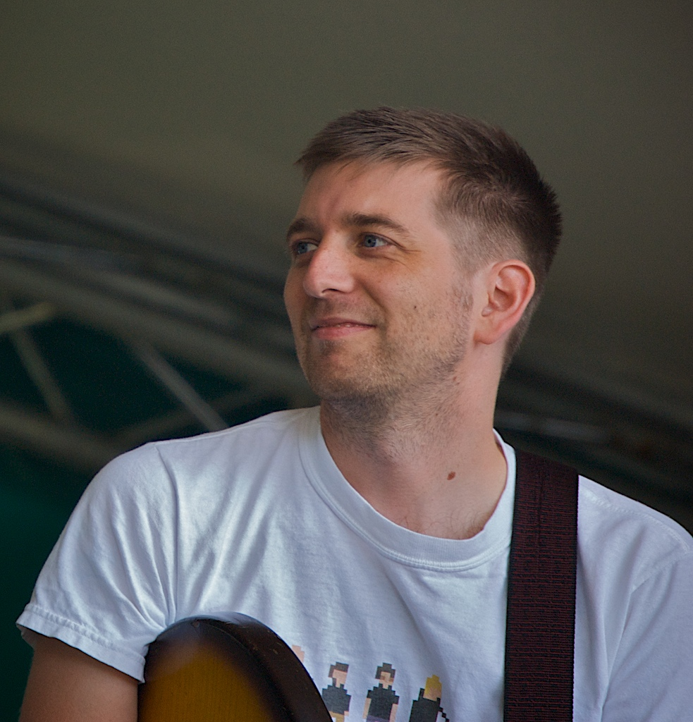 John K. Samson of The Weakerthans, at Calgary Folkfest '08